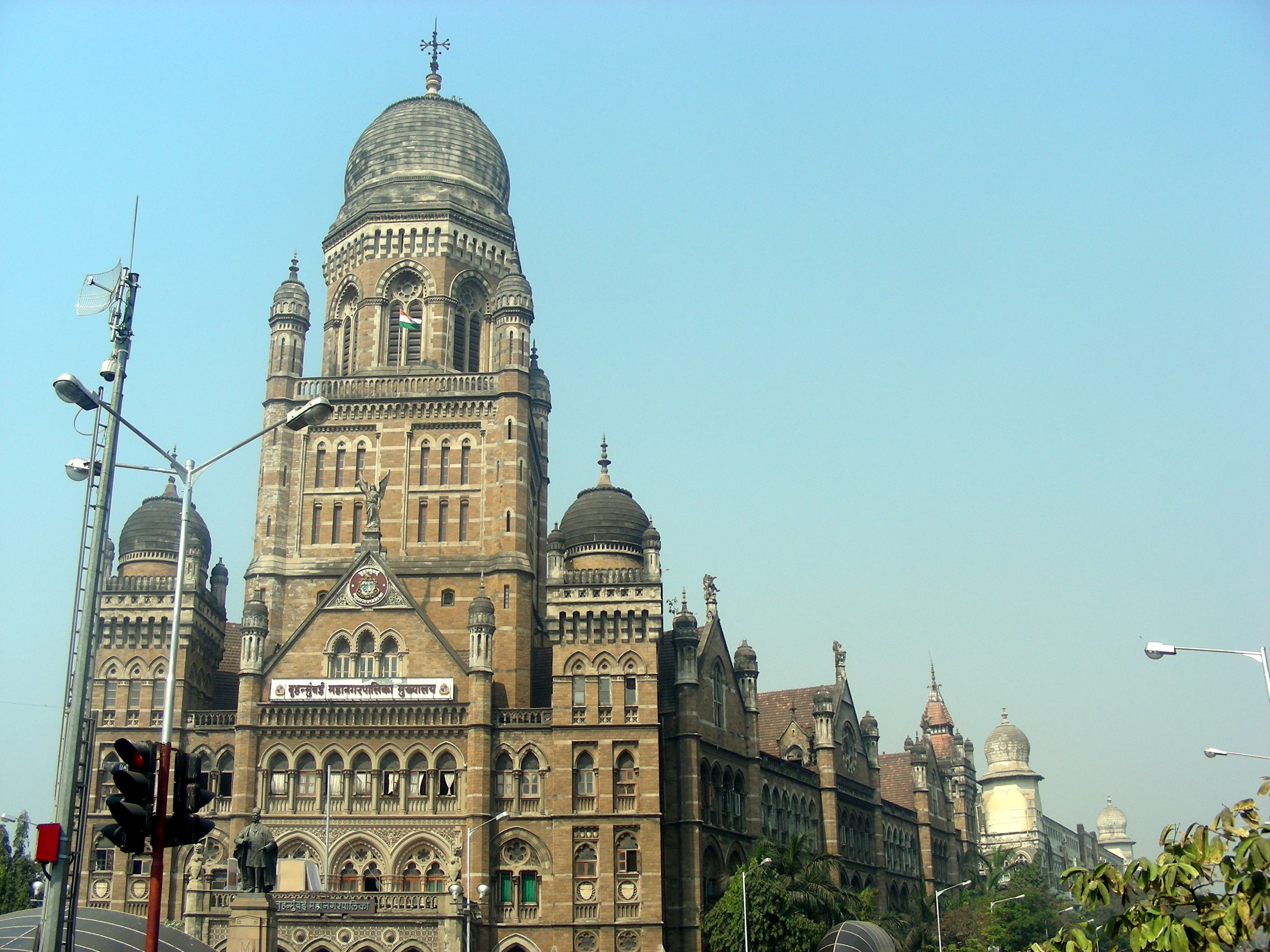 BMC Headquaters Mayur.thakare 04:58, 24 January 2007 (UTC)